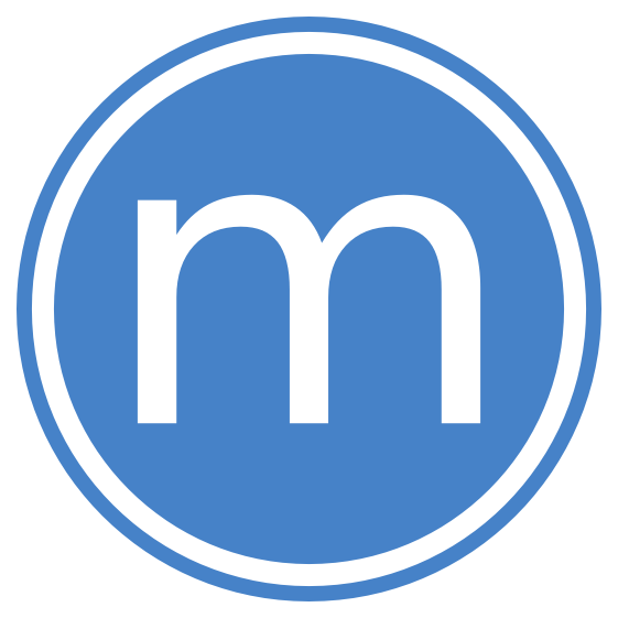 Mumbai metro logo